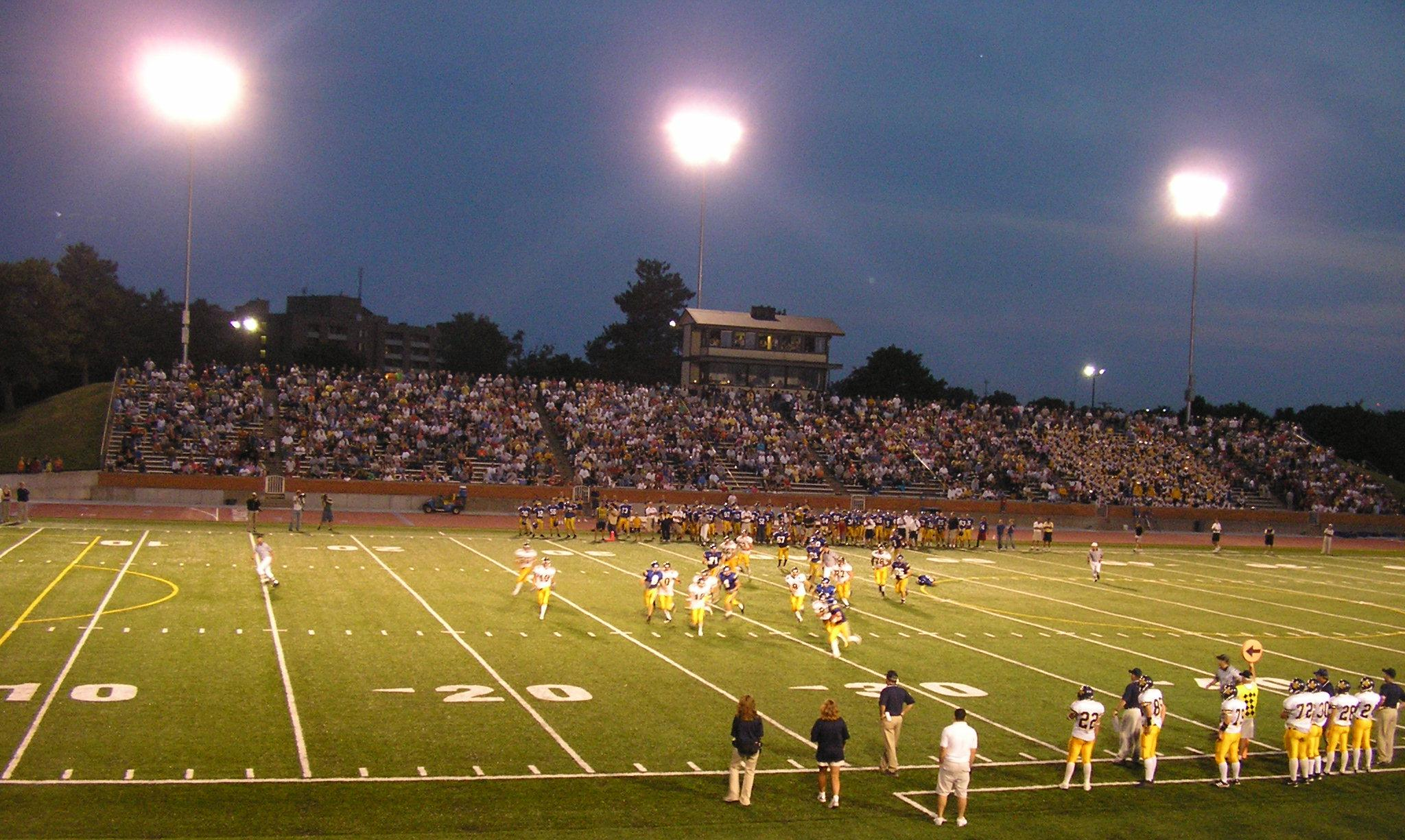 Midland Community Stadium, in Midland, Michigan. Teams playing are Midland High School (Blue) versus Mt. Pleasant Oilers (White).